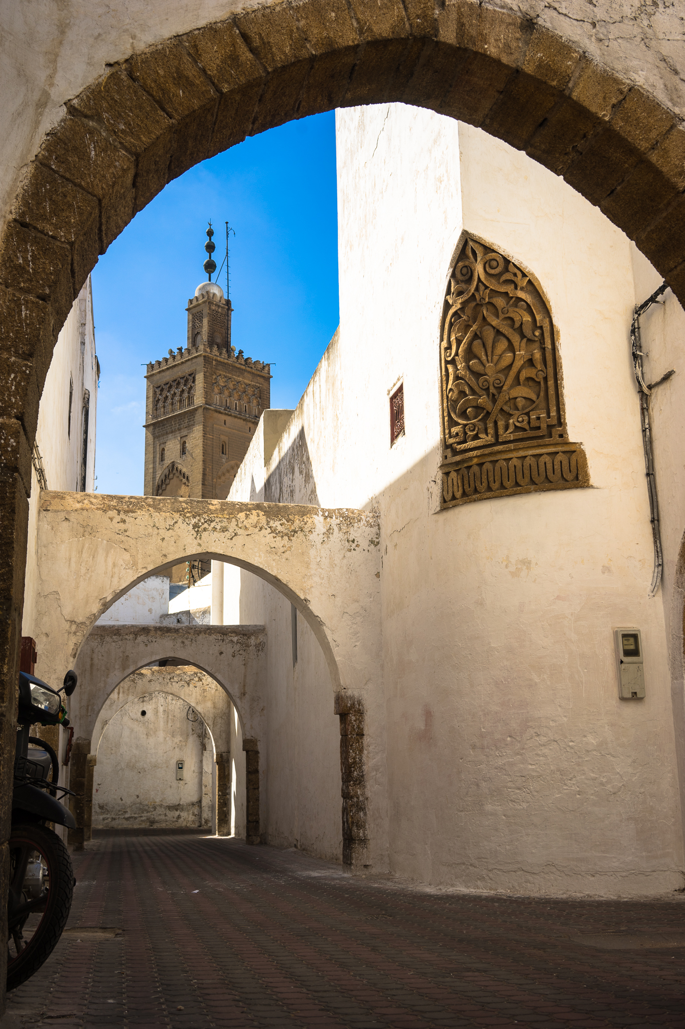 Casablanca